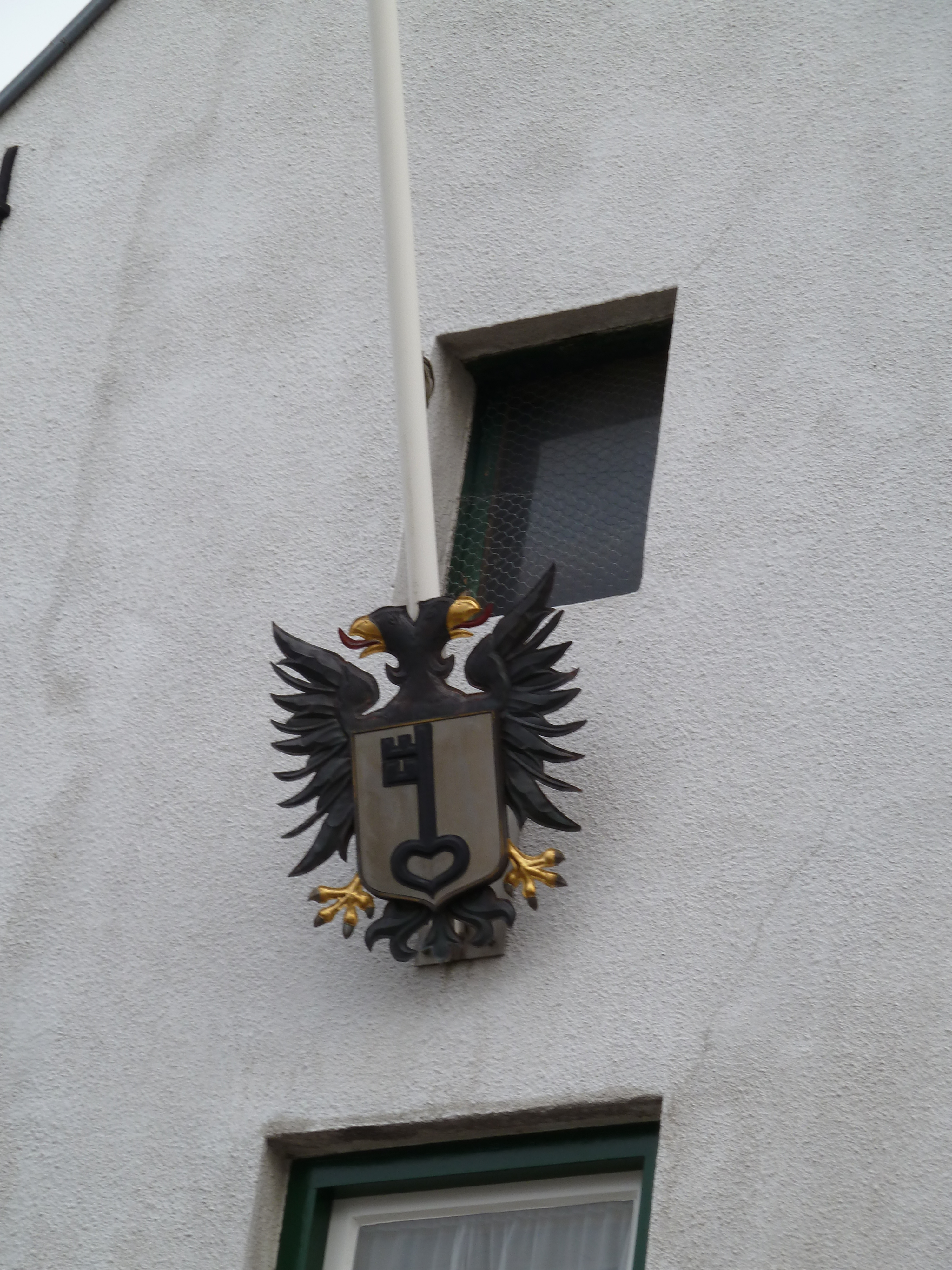 Op de Bies 8, Berg, Limburg, the Netherlands